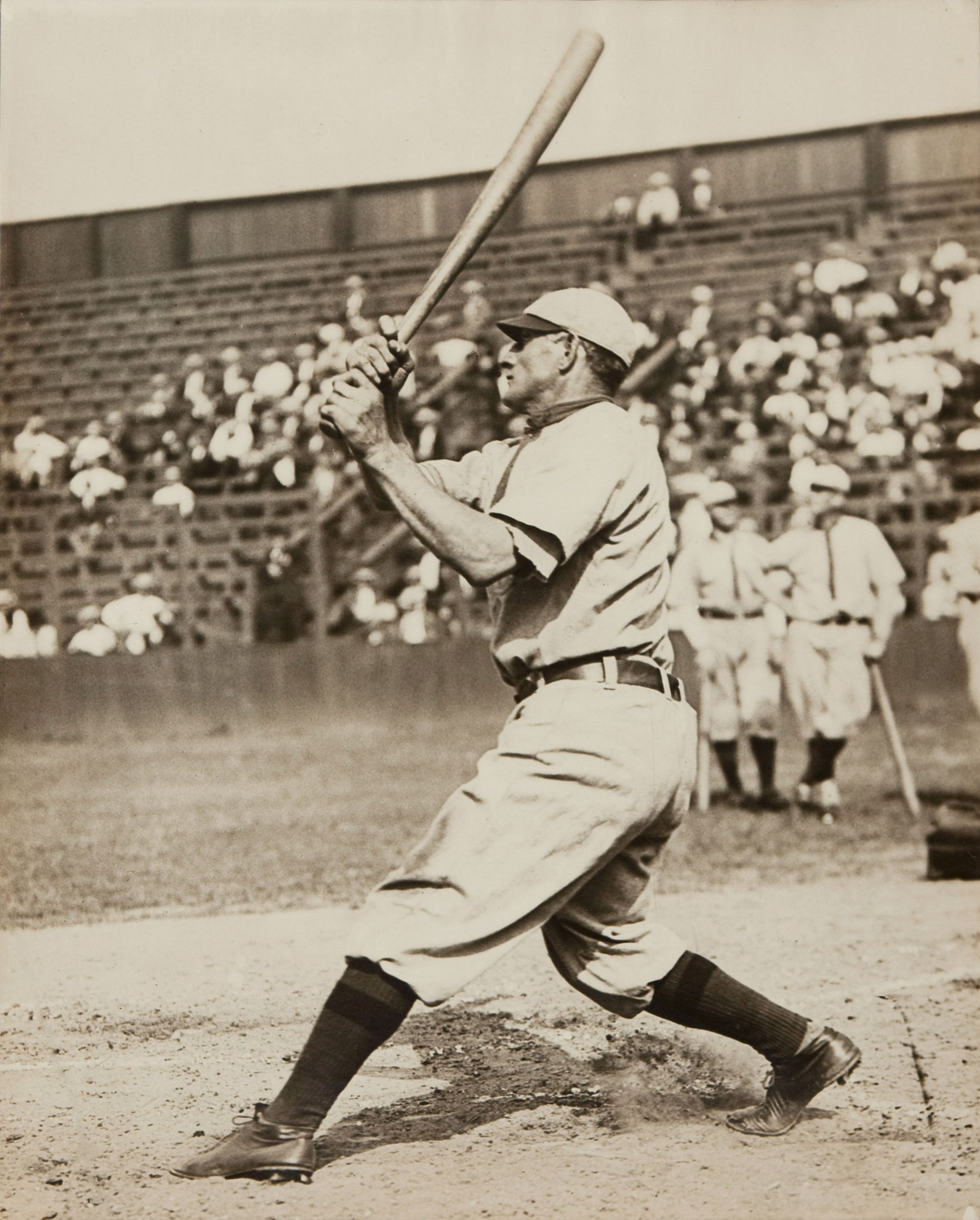 Honus Wagner taking batting practice during the time immediately following the Pirates' 1909 World Championship season.